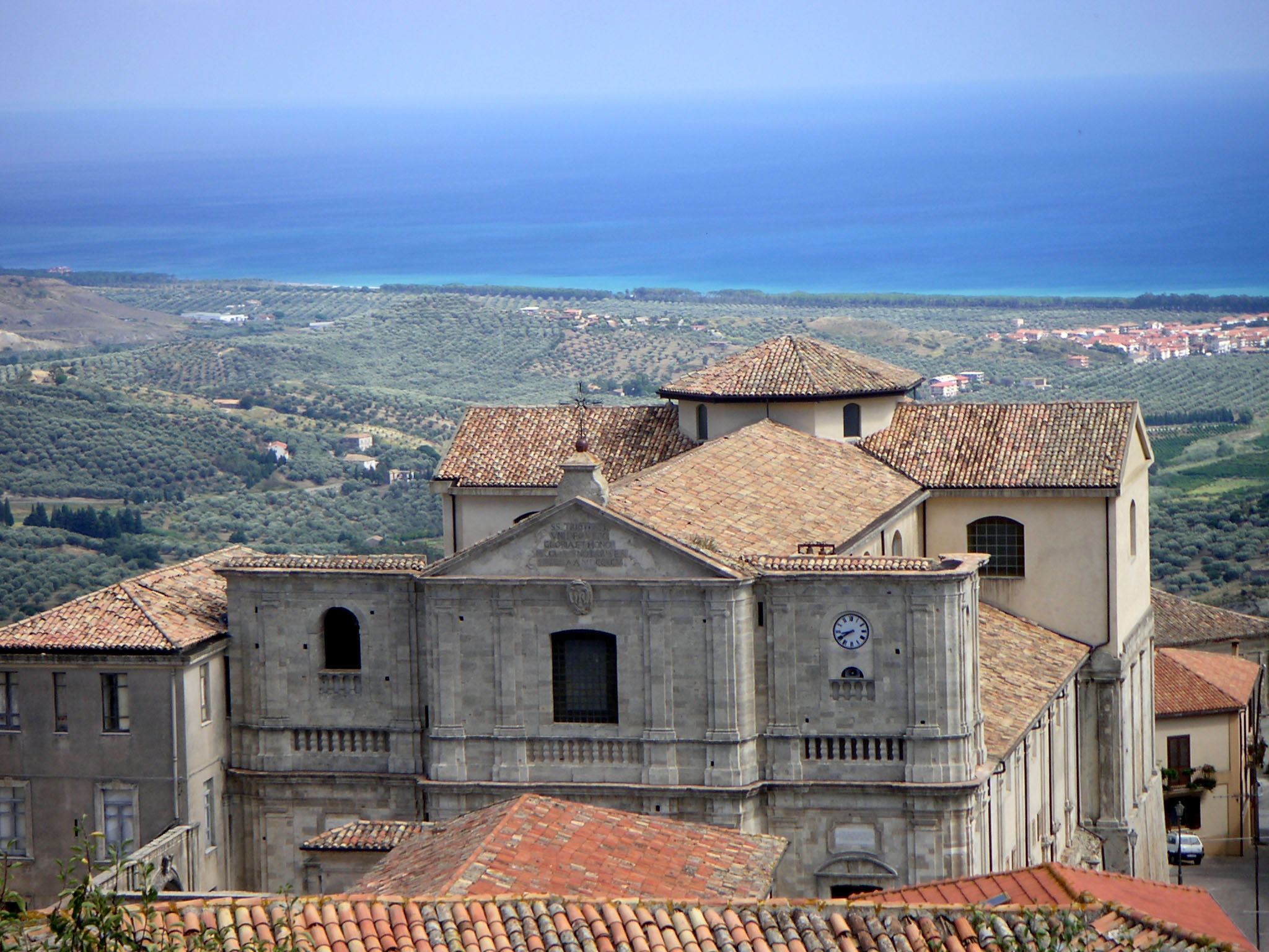 Cathedral of Squillace and view to the sea